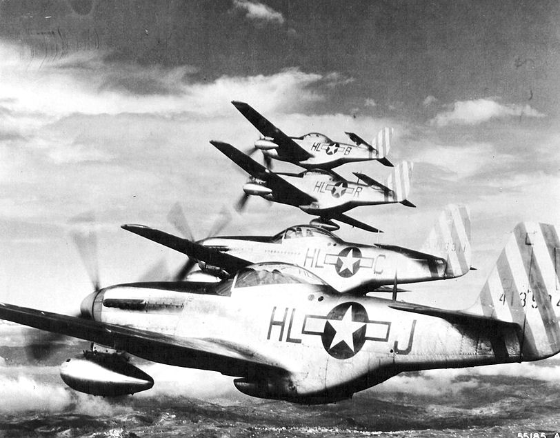 308th Fighter Squadron 31st Fighter Group North American North American P-51D-5-NA Mustang 44-13524 in foreground